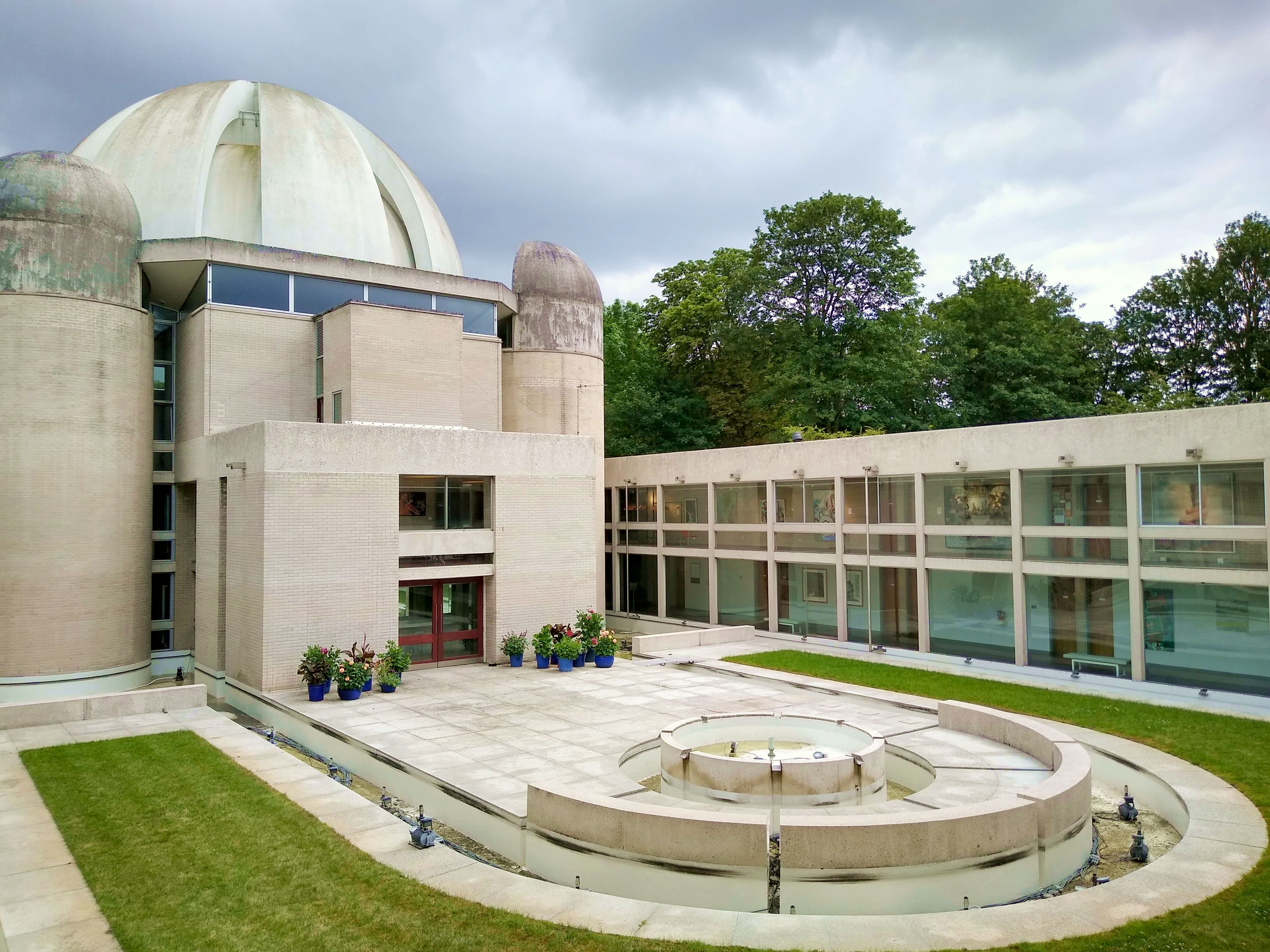 Cambridge University Murray Edwards College Fountain Court in September 2014.